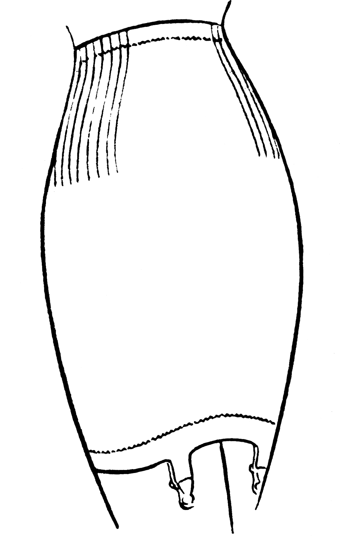 8. Fabric and construction determine the amount of control possible.